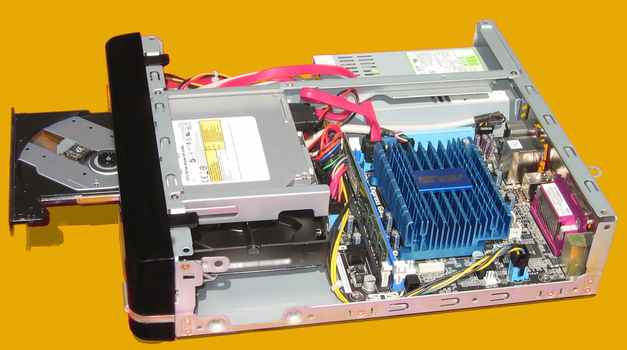 ITX Personal Computer Case and Flex-ATX PSU